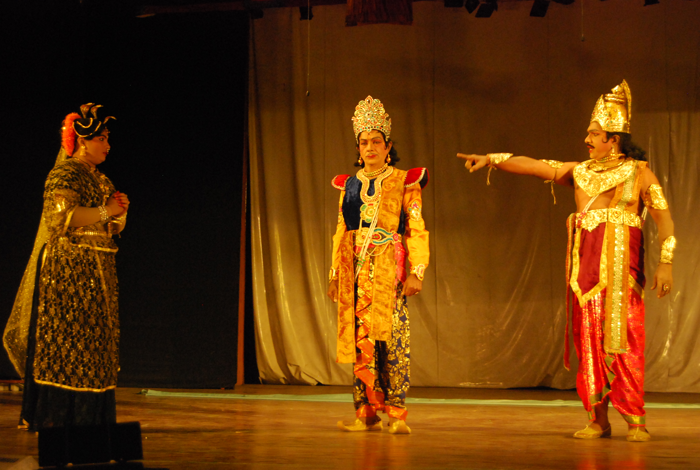 Sekhar Babu Pandilla as Arjuna,Akki Reddy as Babhruvahana and Surabhi Rama Laxmi as Chitrangada.